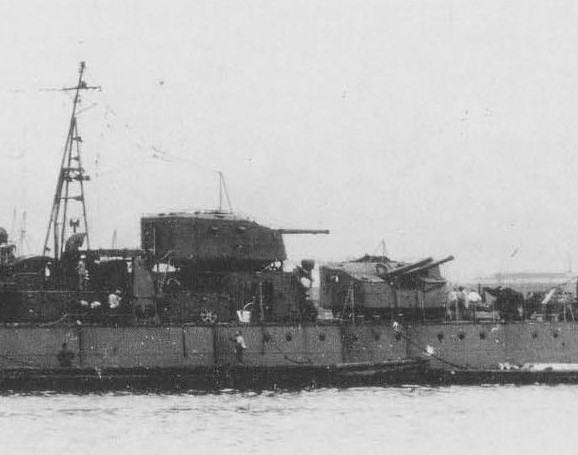 Type C turret - 127 mm Type 3 gun-2 of the Imperial Japanese Navy destroyer Tanikaze.